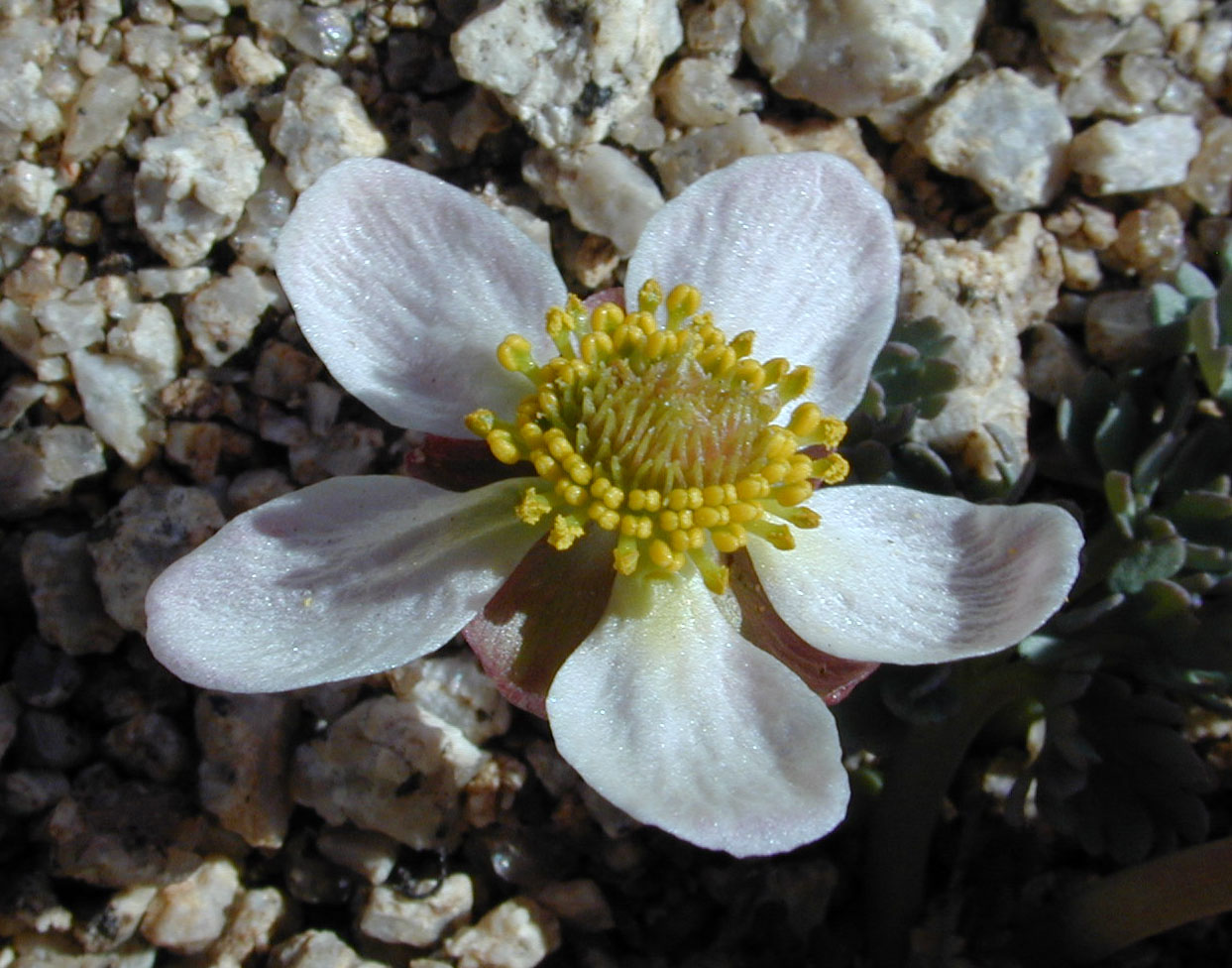 A flower, in early Spring, in the Buttermilks region West of Bishop, CA